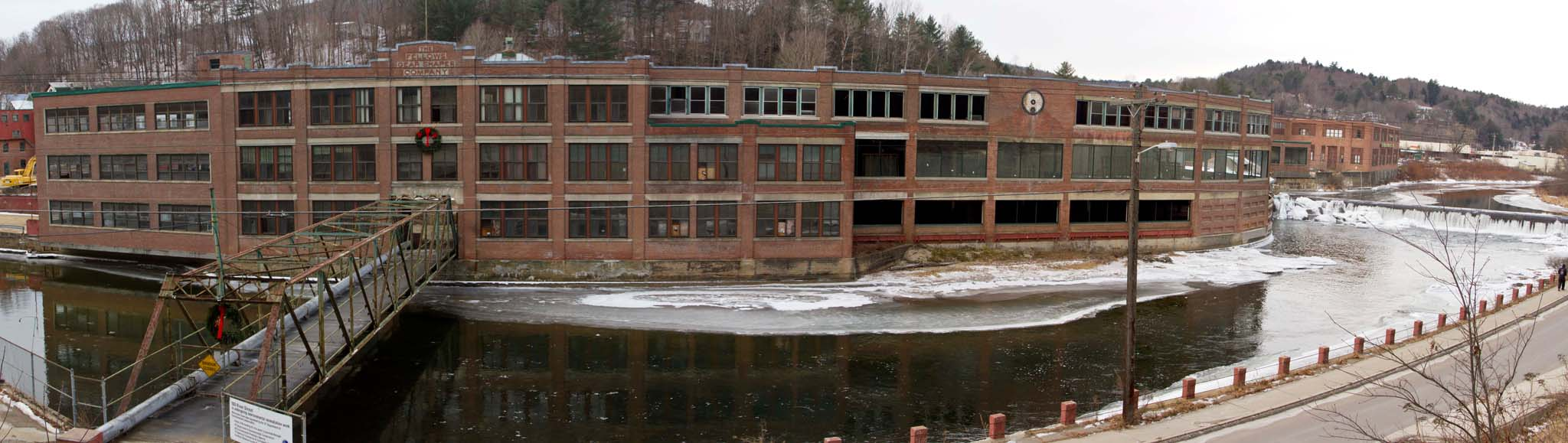 Former Fellows Gear Shaper Company manufacturing facility in Springfield, Vermont, USA, December, 2010.